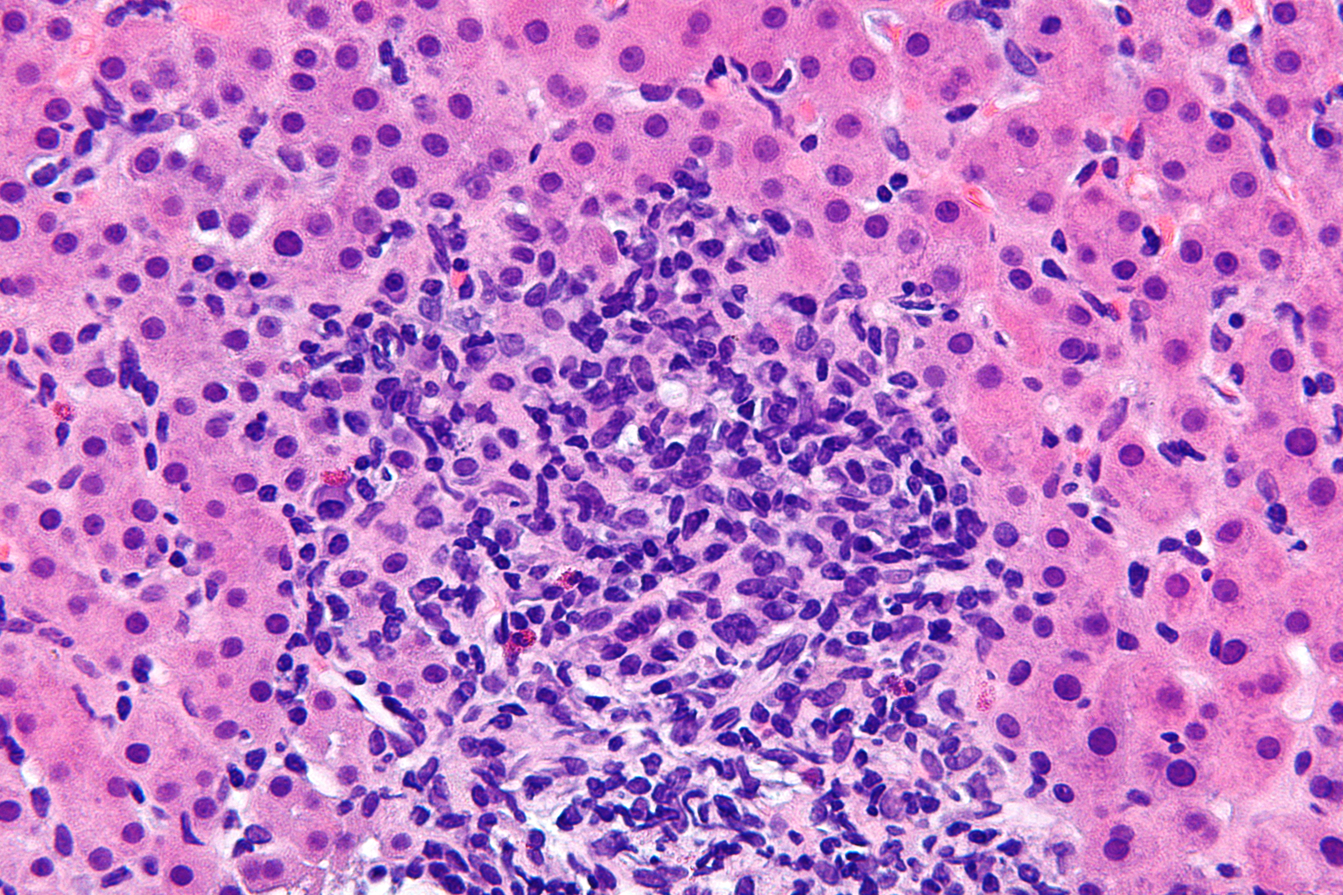 Very high magnification micrograph of autoimmune hepatitis. H&E stain. The characteristic feature is present: Lymphoplasmacytic interface hepatitis - plasma cells and lymphocytes at the interface between the portal tract and liver lobule. Interface hepatitis per se is non-specific; it may be seen in viral hepatitides. The plasma cells are what is important! Related images Low mag. Intermed. mag. High mag. Very high mag. Very high mag. (cropped)